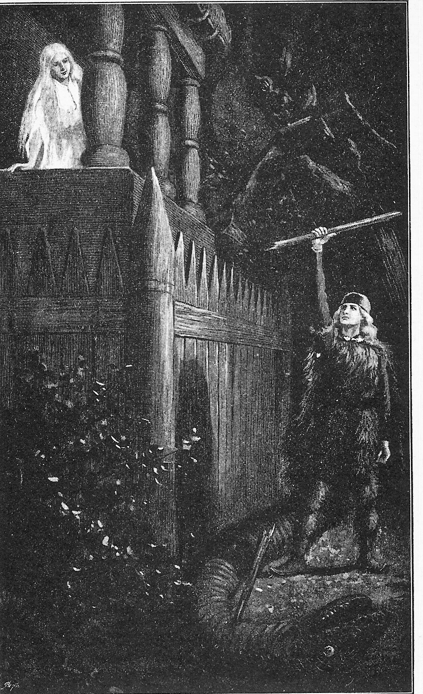 Ragnar Lodbrok slays a serpent to win the hand of Thora Town-Hart.